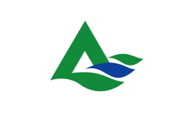 Flag of Aizumisato Fukushima